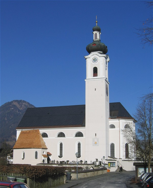 Oberaudorf, view of Parish Church of Our Lady and Saint Ann's Chapel (now war memorial, in foreground on the left) from south-east (Rosenheimer Straße).